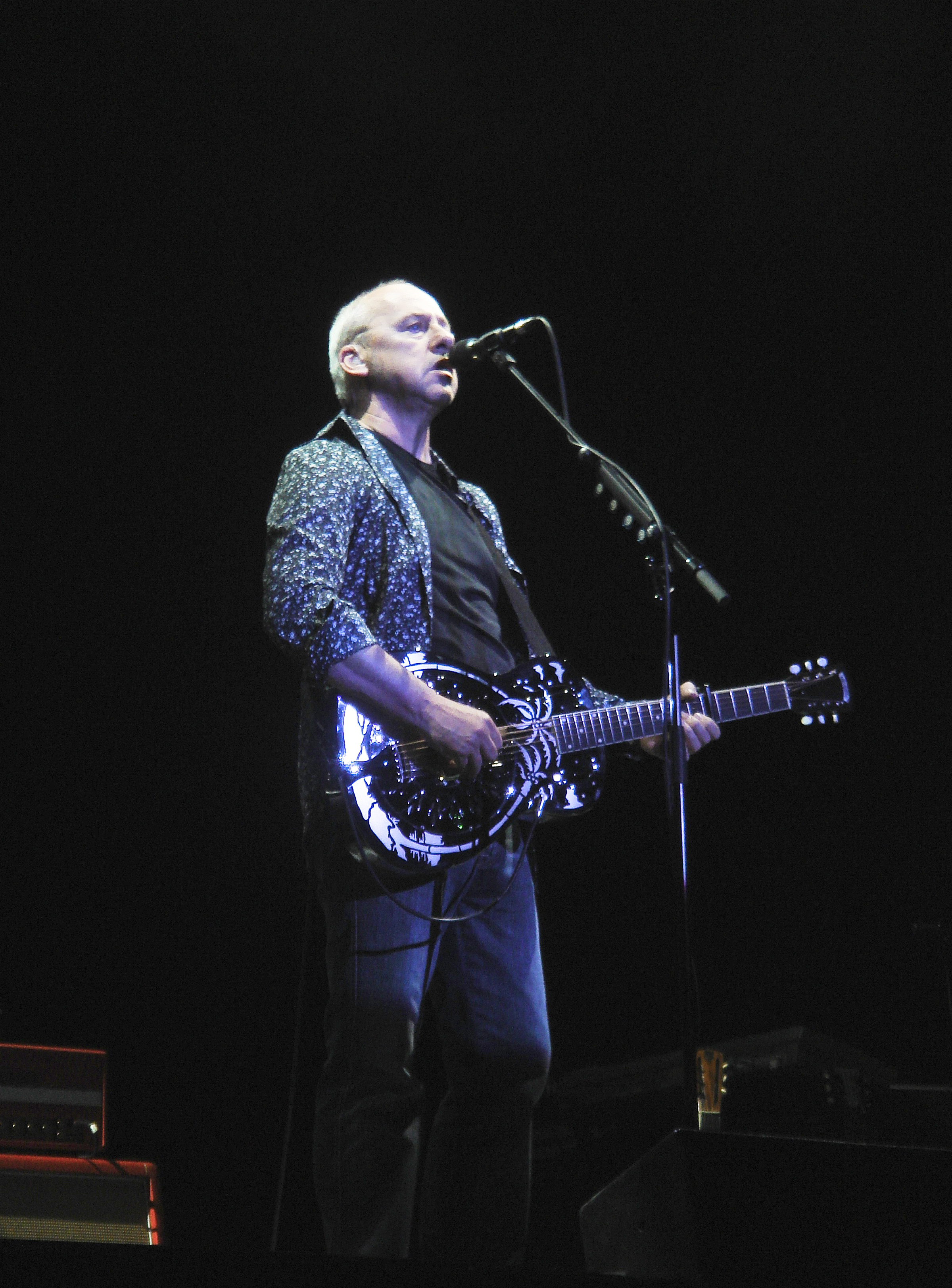 Mark Knopfler performing live at the National Exhibition Centre in Birmingham, England, 16 May 2008